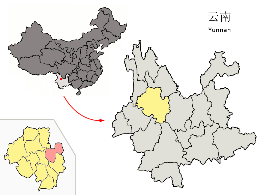 Location of Binchuan County (pink) and Dali Prefecture (yellow) within Yunnan province of China Map drawn in september 2007 using various sources, mainly : Yunnan province administrative regions GIS data: 1:1M, County level, 1990 Yunnan Counties map from